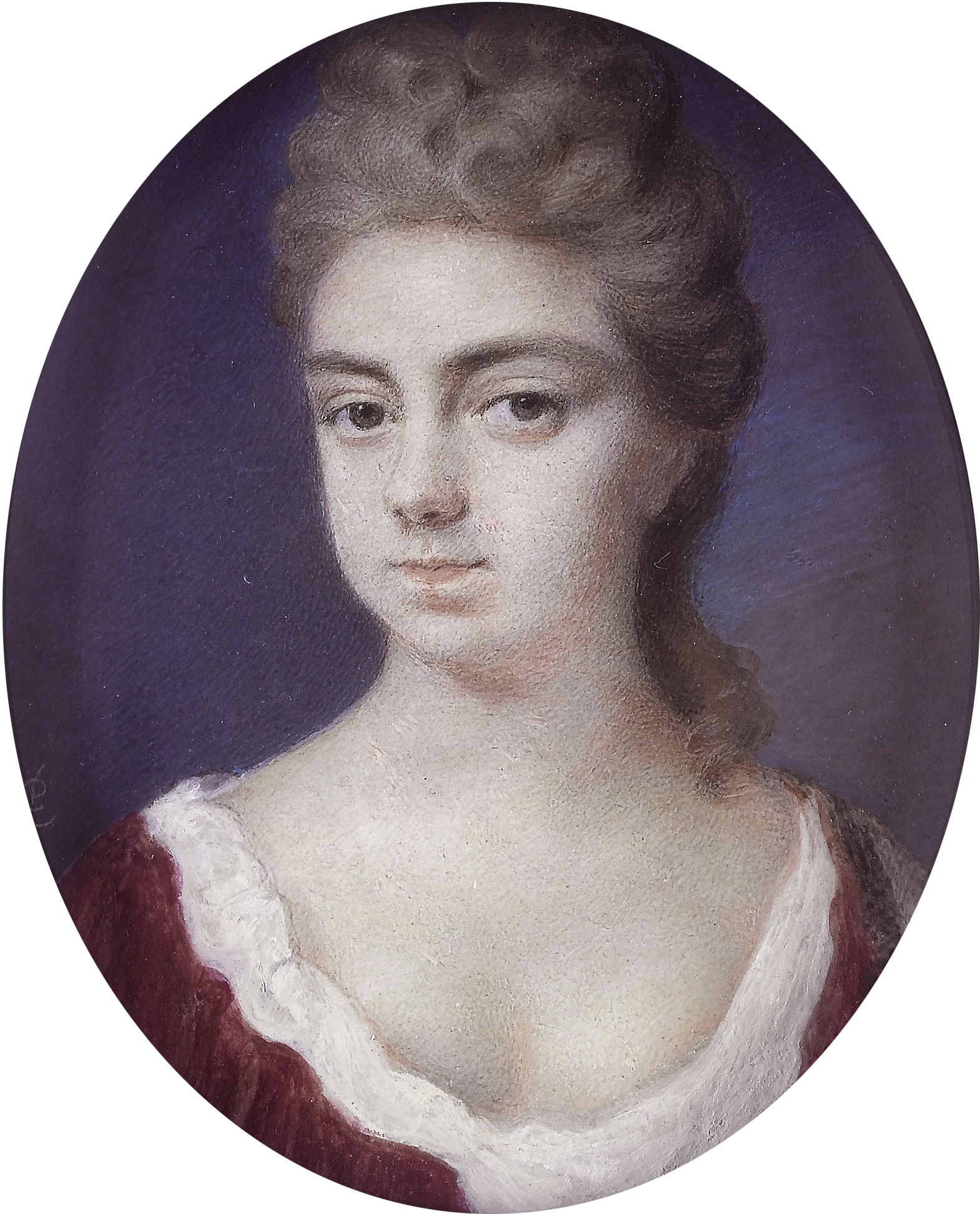 Theodosia Monckton (née Fountaine) watercolour on vellum oval 6.7 cm high signed l.c.: PC signed verso: ****** / 98 / Peeter Crosse / fe